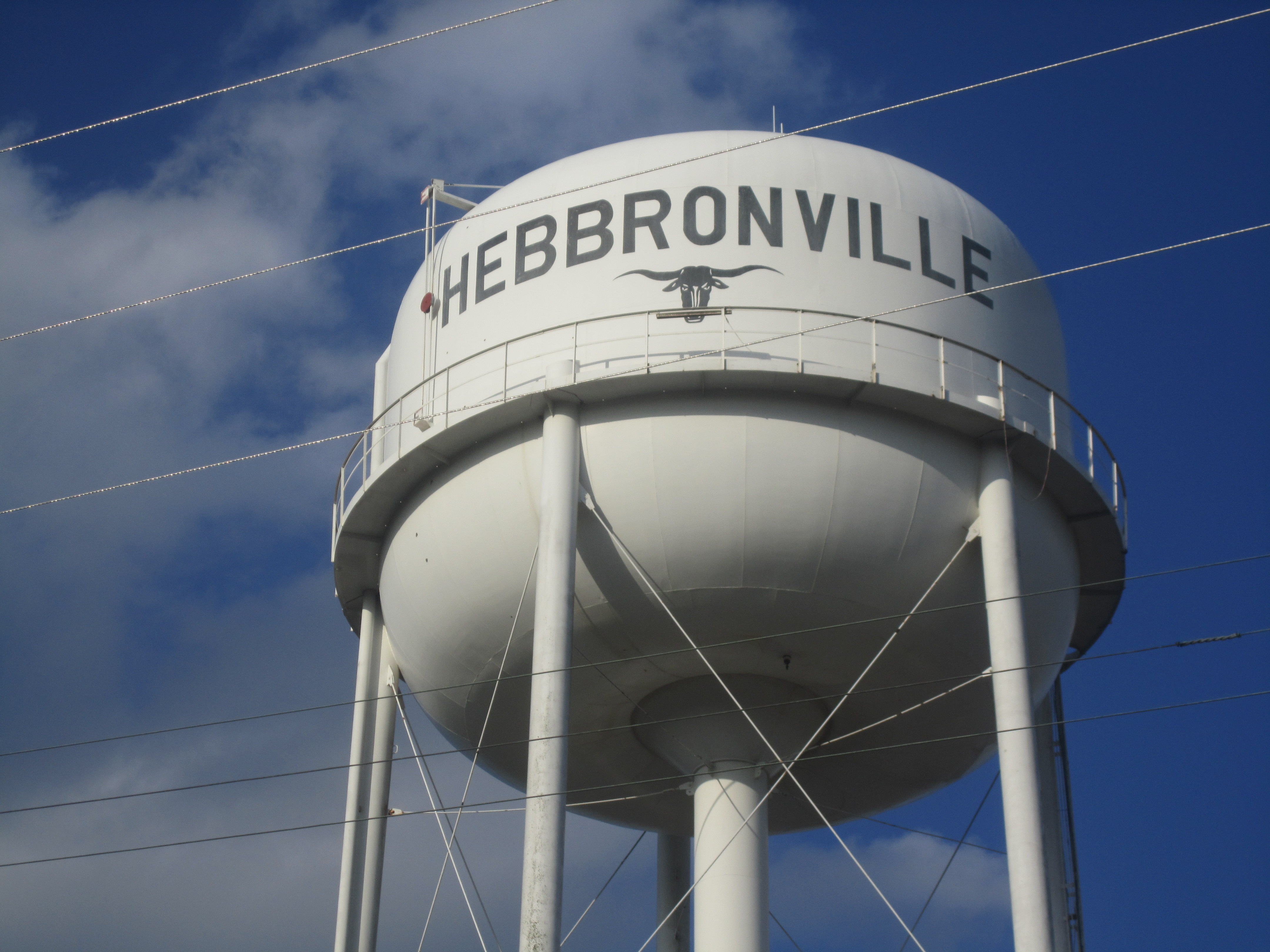 I took photo with Canon camera of water tower in Hebbronville, TX.